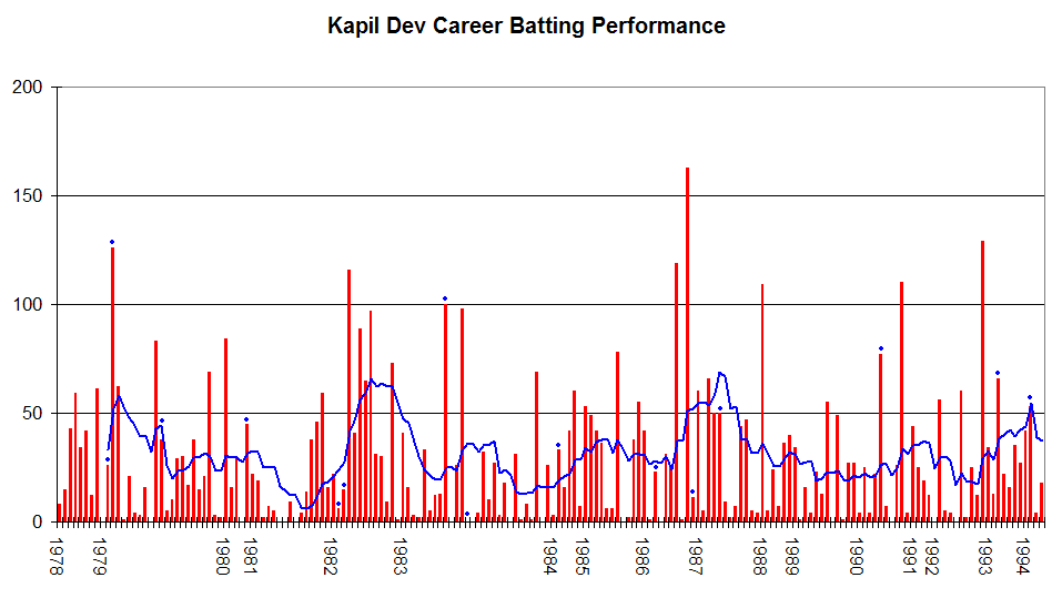 This graph details the Test Match performance of Kapil Dev. It was created by Raven4x4x. The red bars indicate the player's test match innings, while the blue line shows the average of the ten most recent innings at that point. Note that this average cannot be calculated for the first nine innings. The blue dots indicate innings in which Kapil finished not-out. This graph was generated with Microsoft Excel 2002, using data from Cricinfo and .au.